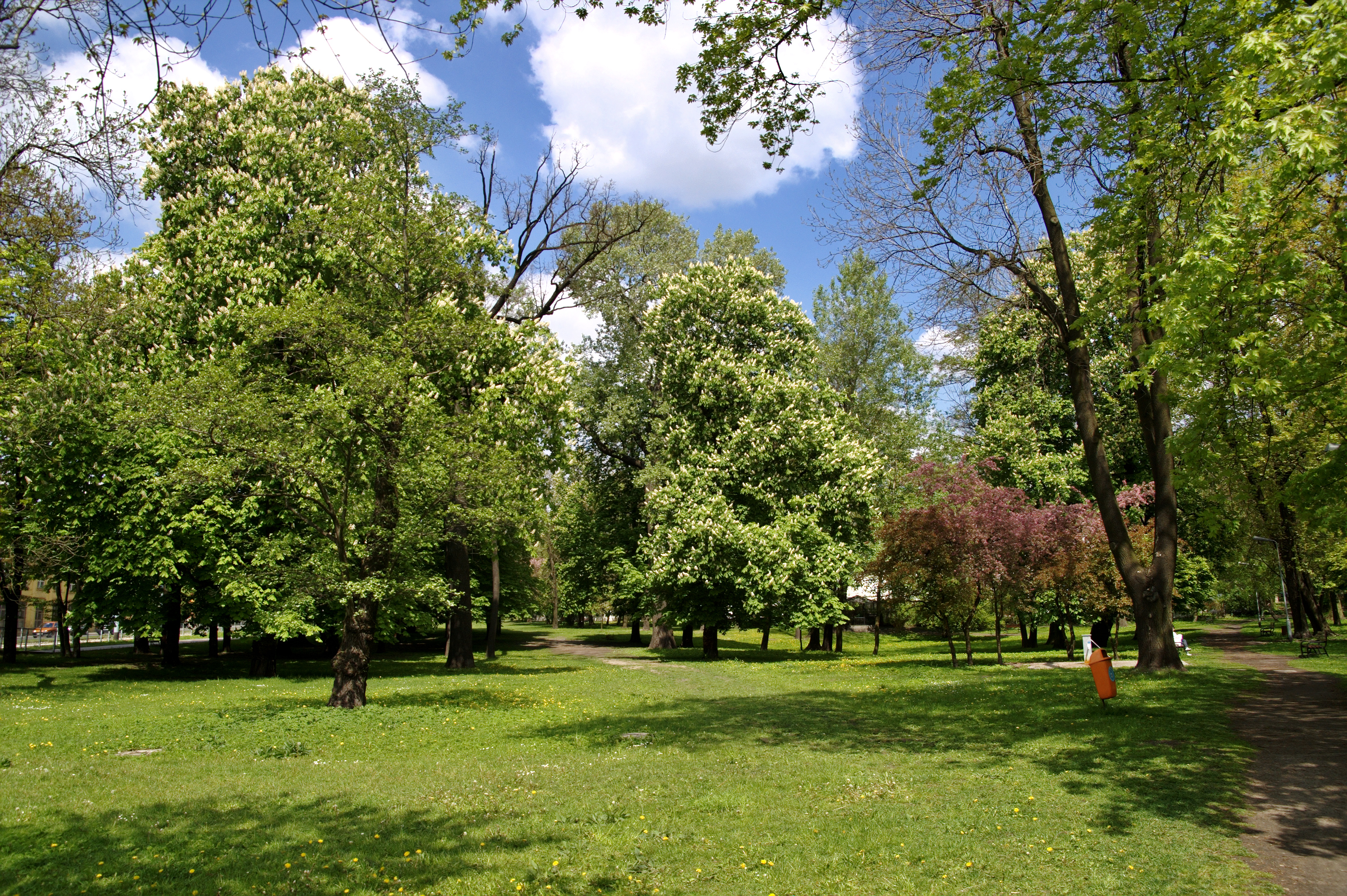 Jan Kiliński park in Łódź